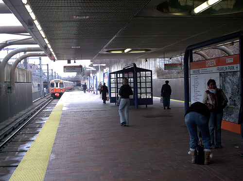 Green Street MBTA station.